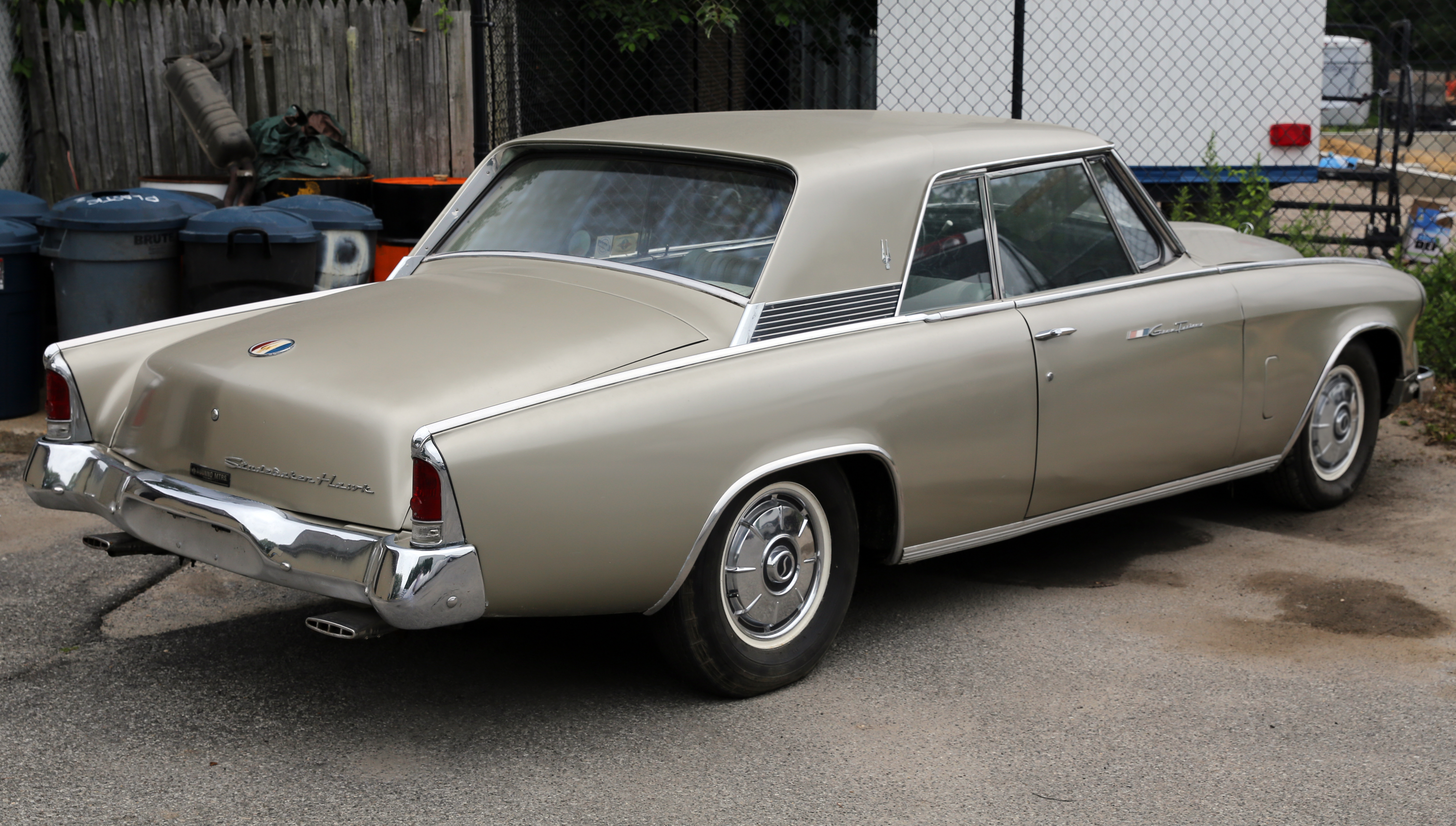 Rear view of a 1964 Studebaker Gran Turismo Hawk.